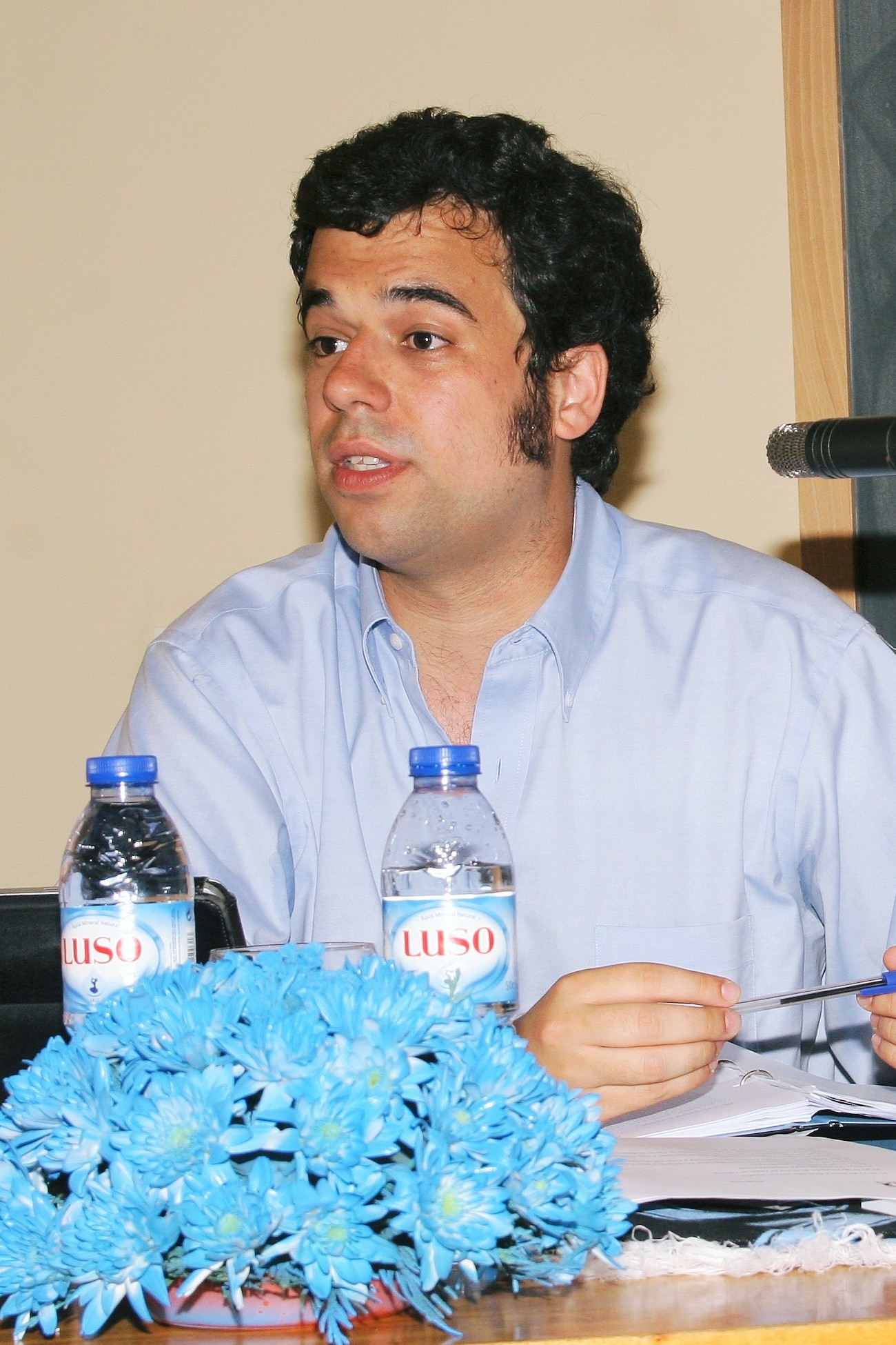 Michael Seufert in the electoral debate promoted by the AEFCUP.